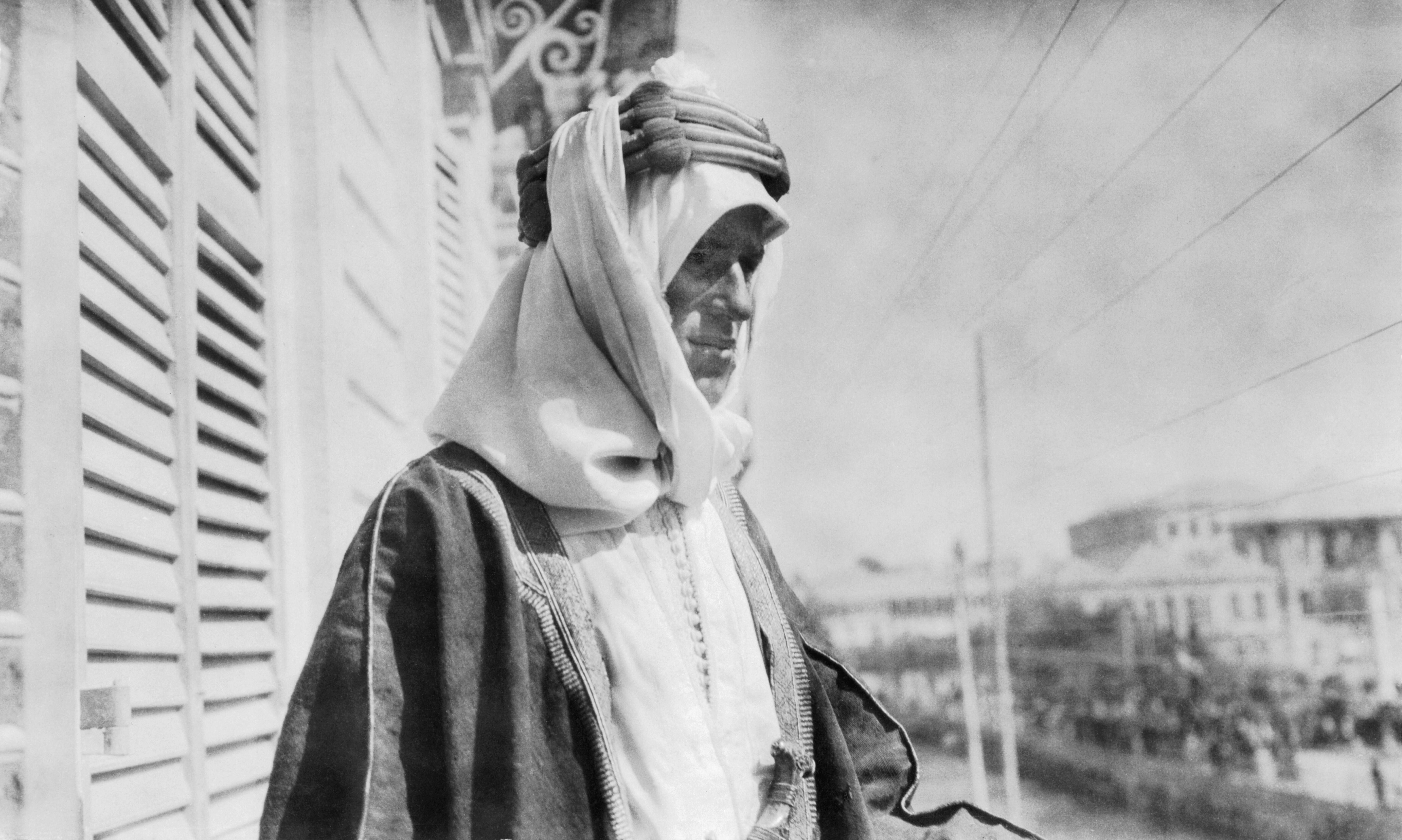 T. E. Lawrence standing on the balcony of the Victoria Hotel in Damascus, October 1918.